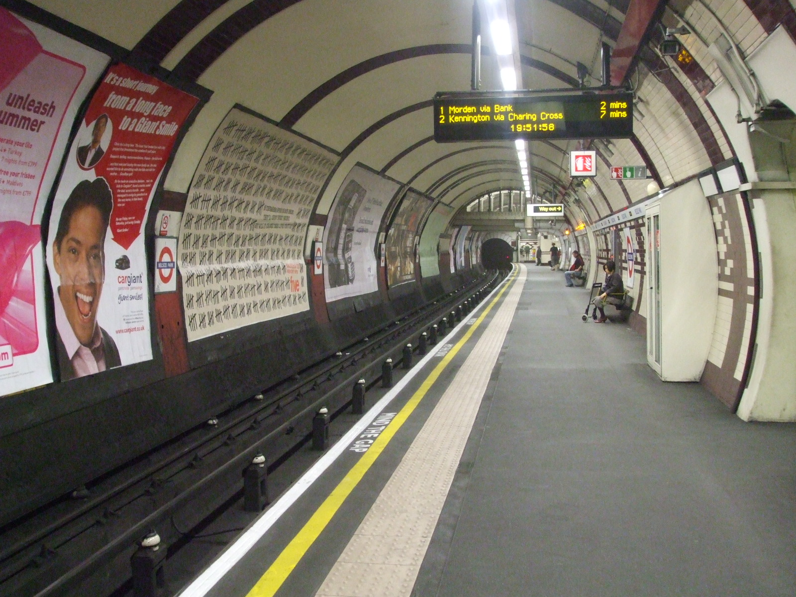 Belsize Park tube station southbound platform looking south